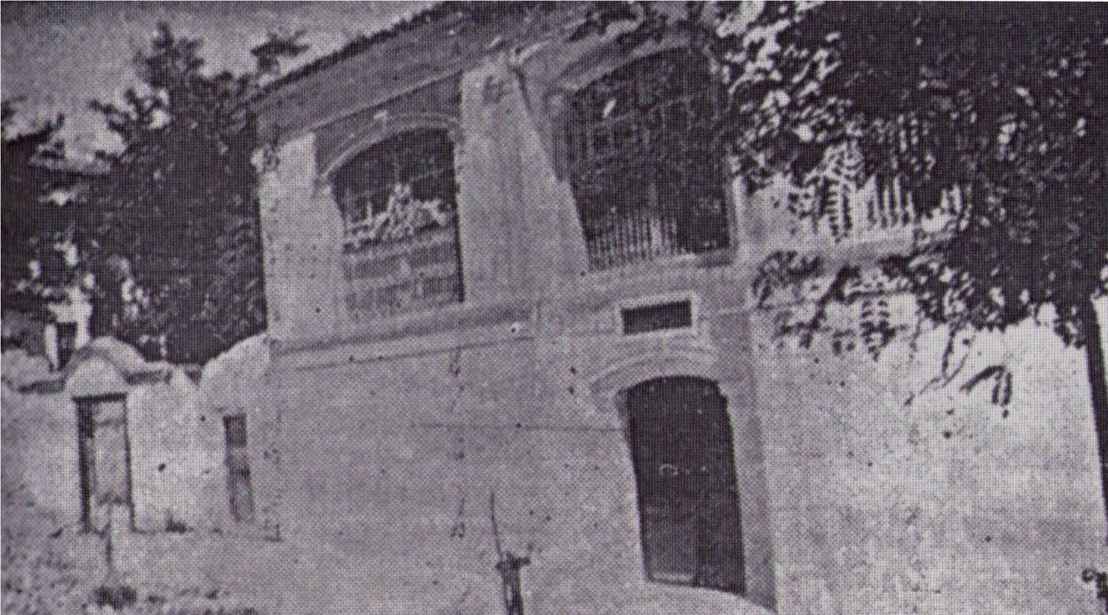 Kastoria synagogue Aragonia in Omonia Square